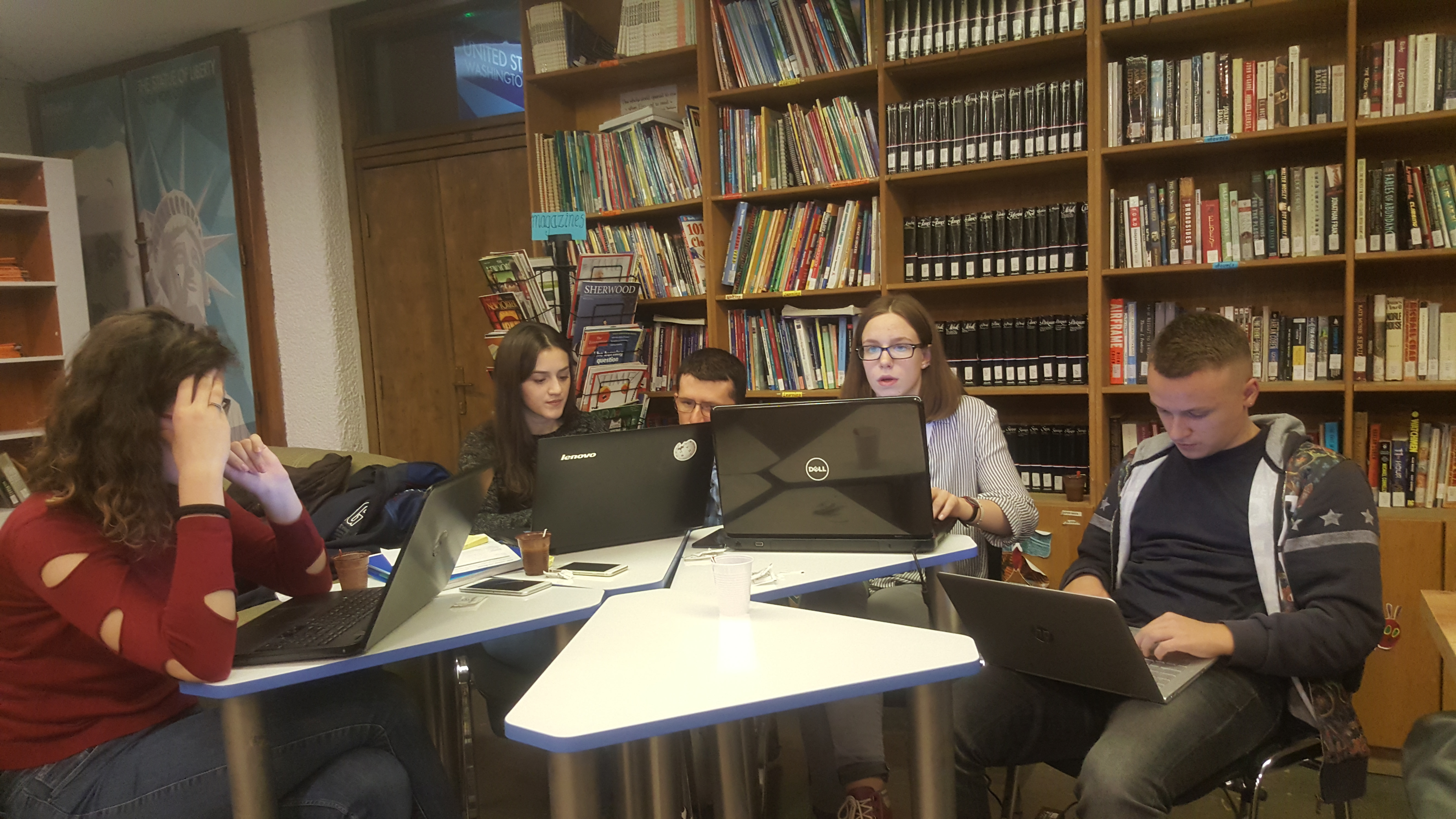 Editathon with American Corner Prishtina